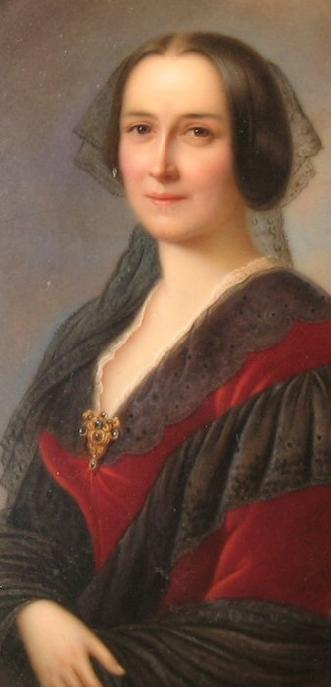 This copy of a porcelain portrait of Hon. Anne Lyons, later Baroness von Wurtzburg, is in the possession of her descendants.